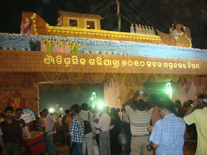 baliyatra